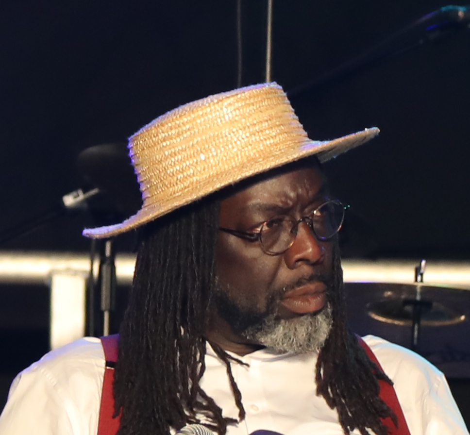 Photo of Victor Olufemi Adebowale, Baron Adebowale at byline festival